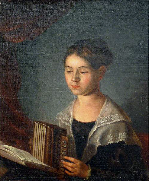 Portrait of a girl playing an accordion. German School, 19th century. Oil on canvas, 12 x 10 inches